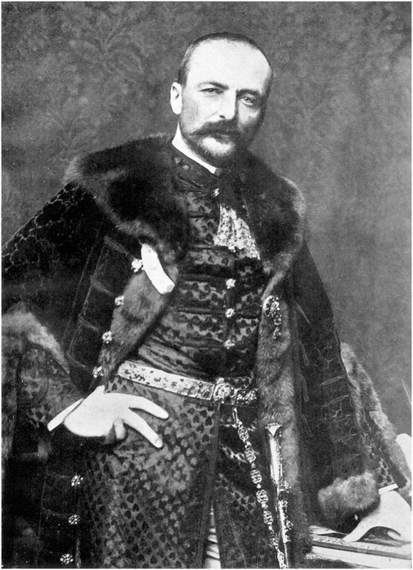 Count István Tisza